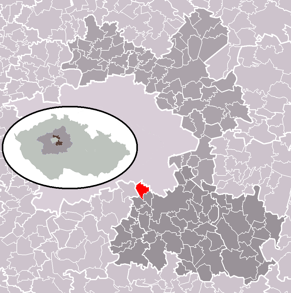 Location of Čestlice municipality within Prague-East District and administrative area of Říčany as a Municipality with Extended Competence.